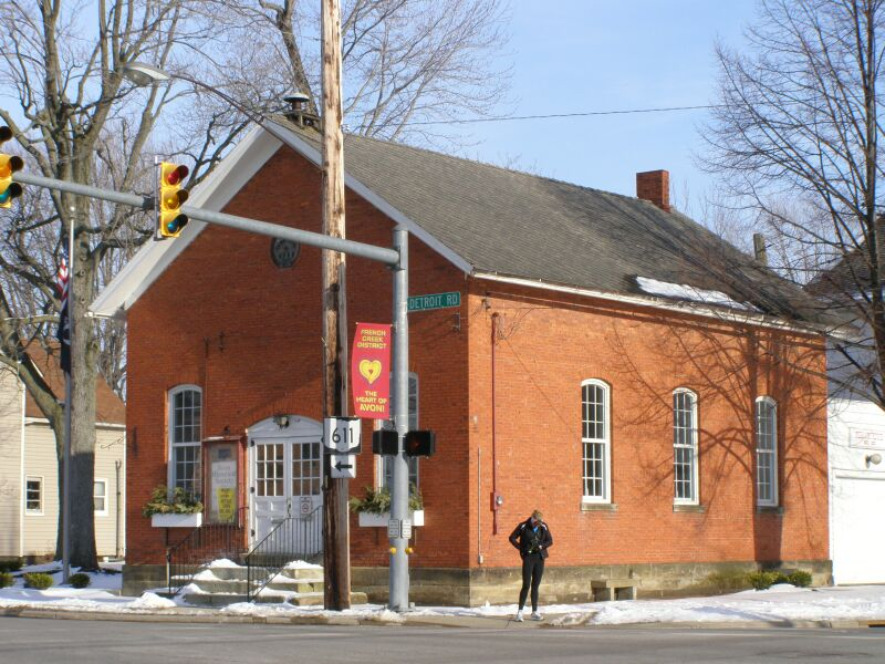 Original Townhall for Avon at French Creek